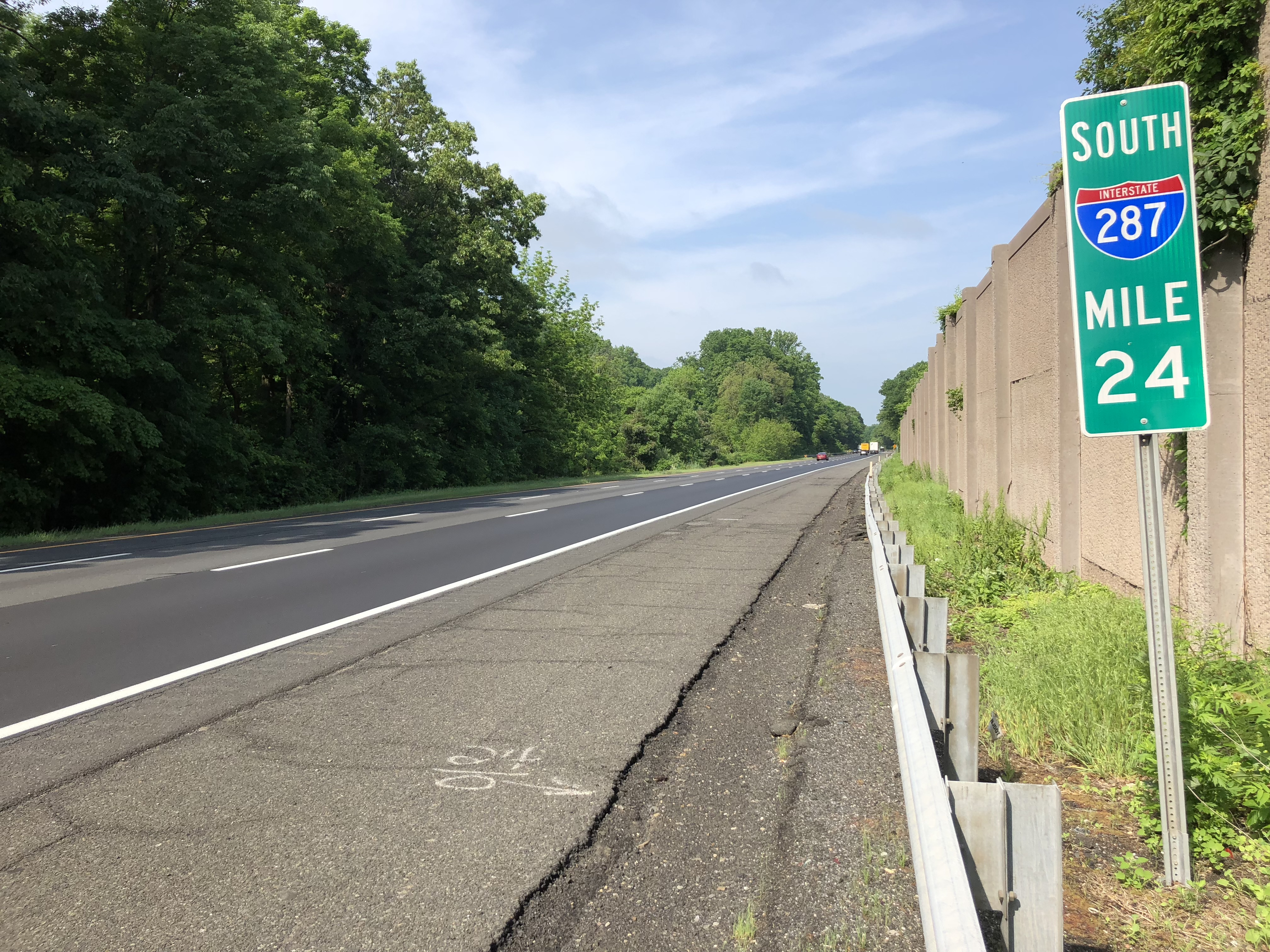 View south along Interstate 287 between Exit 26 and Exit 22 in Far Hills, Somerset County, New Jersey